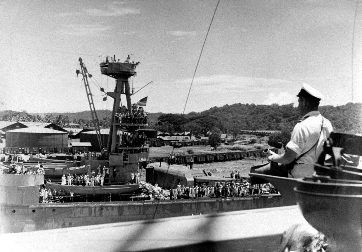 The U.S. Navy heavy cruiser USS Houston (CA-30) at Tjilatjap, Java, 6 February 1942, seen from the light cruiser USS Marblehead (CL-12), which was passing close aboard. Houston 's colours are half-masted pending return of her funeral party, ashore for burial of men lost when a bomb hit near her after 20.3 cm gun turret two days earlier during a Japanese air attack in Bangka Strait. The disabled turret is visible in the center of the view, being trained to port.